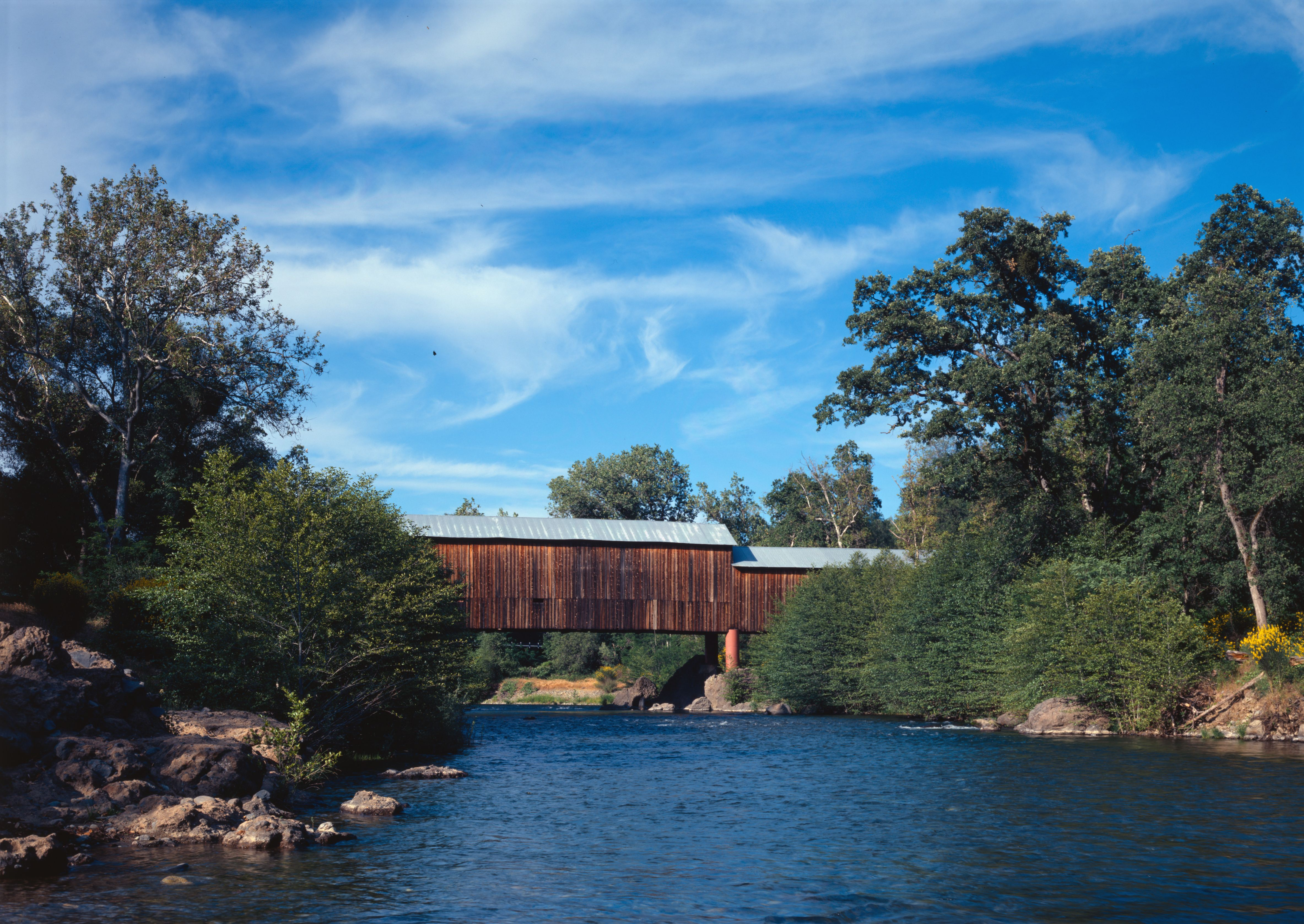 The Honey Run Covered Bridge — spanning over Butte Creek, in northern Butte County, California. Built in 1886, and covered in 1894. Listed on the National Register of Historic Places in Butte County. Image (2004): HAER—Historic American Engineering Record images of California.